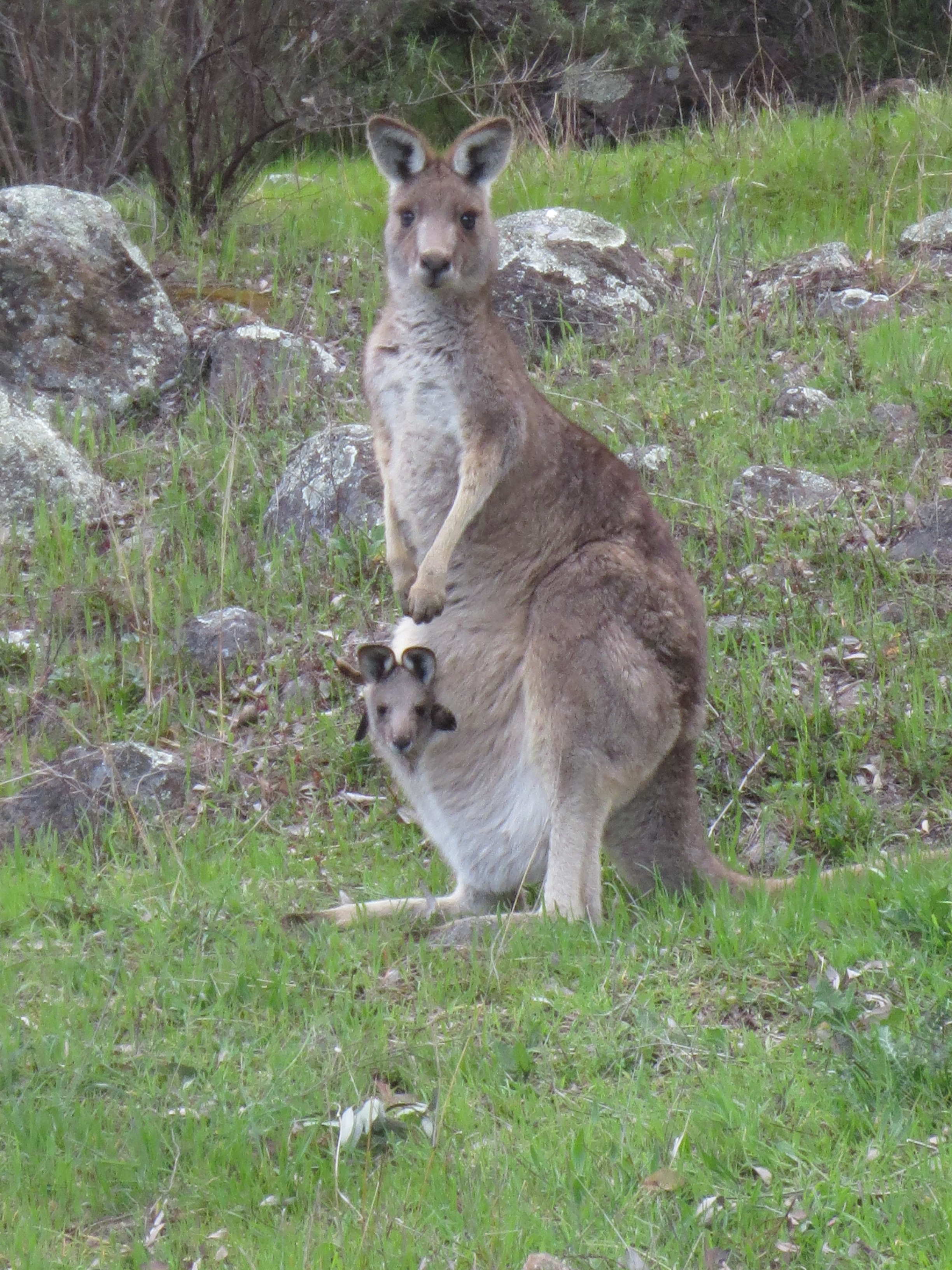 female kangaroo and joey baby kangaroo in pouch in Canberra suburb Farrer